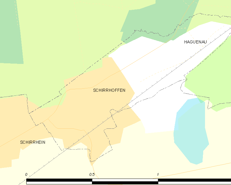 Map of French municipality